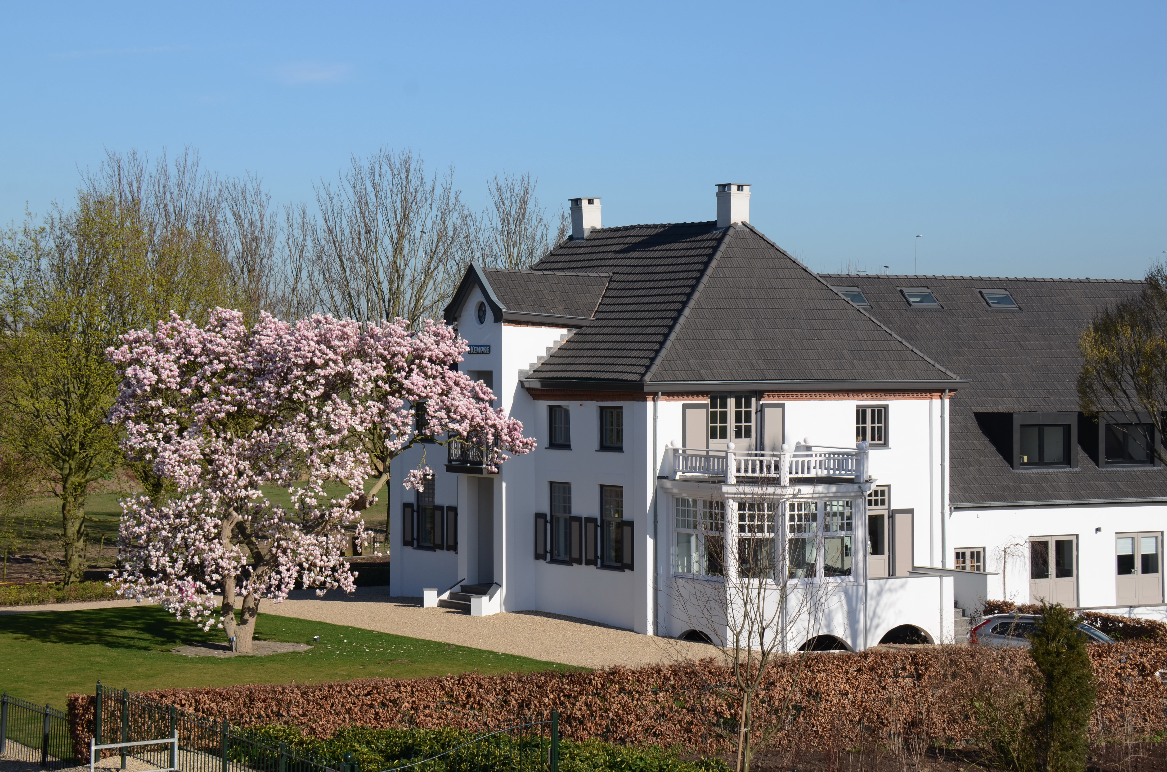 Spring has begun! Lovely farm and tree at Andelst when biking along the Waalriver